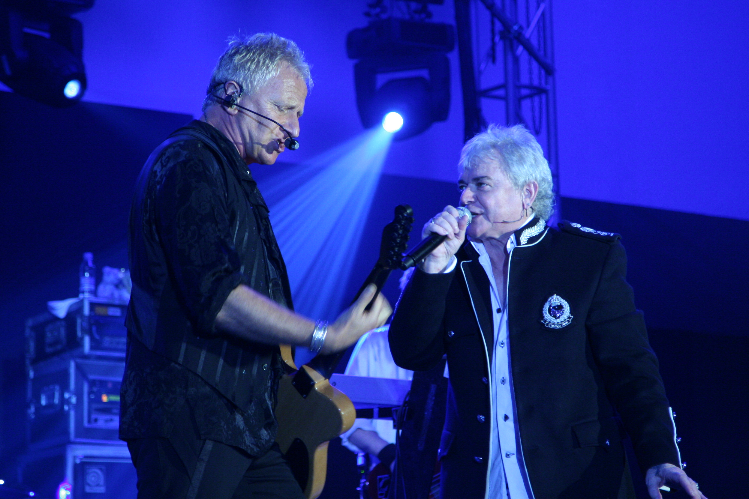 Air Supply concert was held in the Subic Convention Center on June 12, 2007. Both Russell Hitchcock & Graham Russell performed their 30th Anniversary Concert in the Philippines.